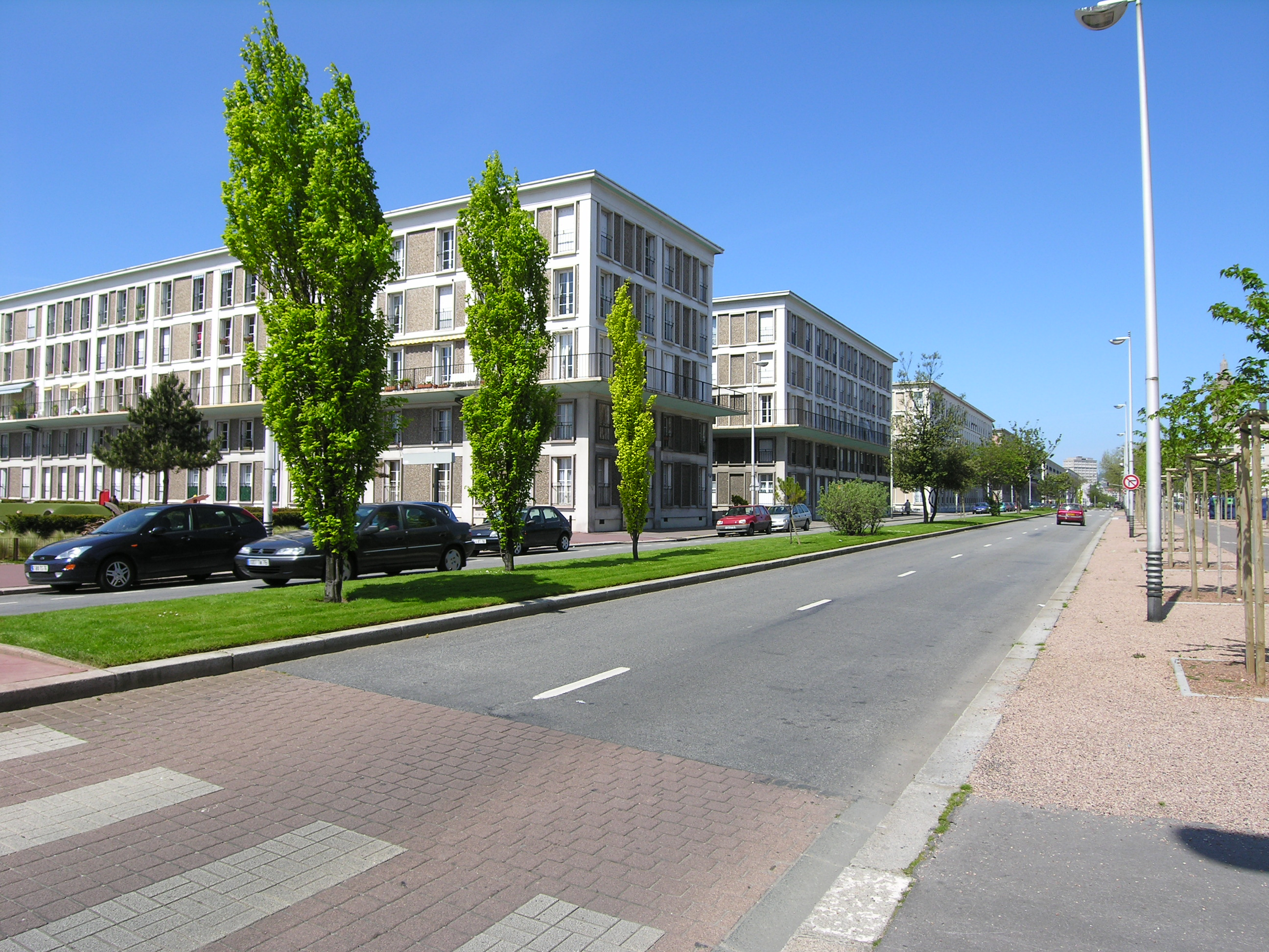 Le Havre, the City Rebuilt by Auguste Perret (France)